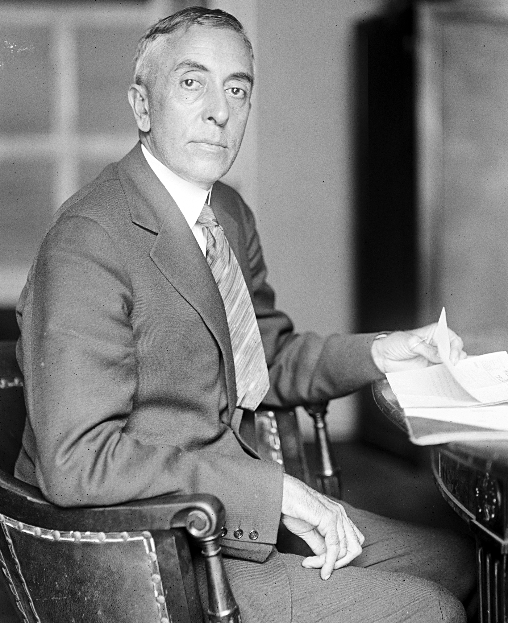 C. Bascom Slemp, US Representative from Virginia